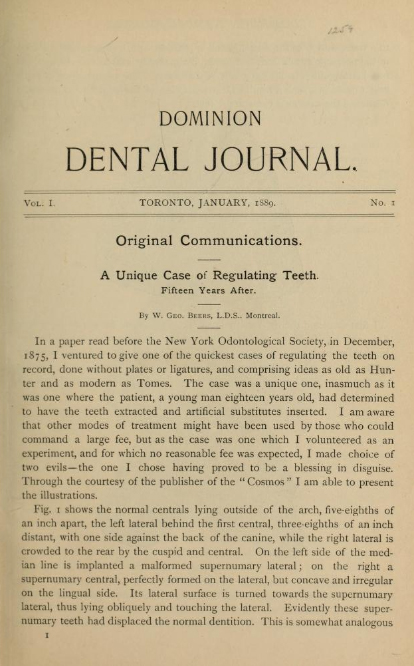 The first page of the volume 1 of the Dominion Dental Journal